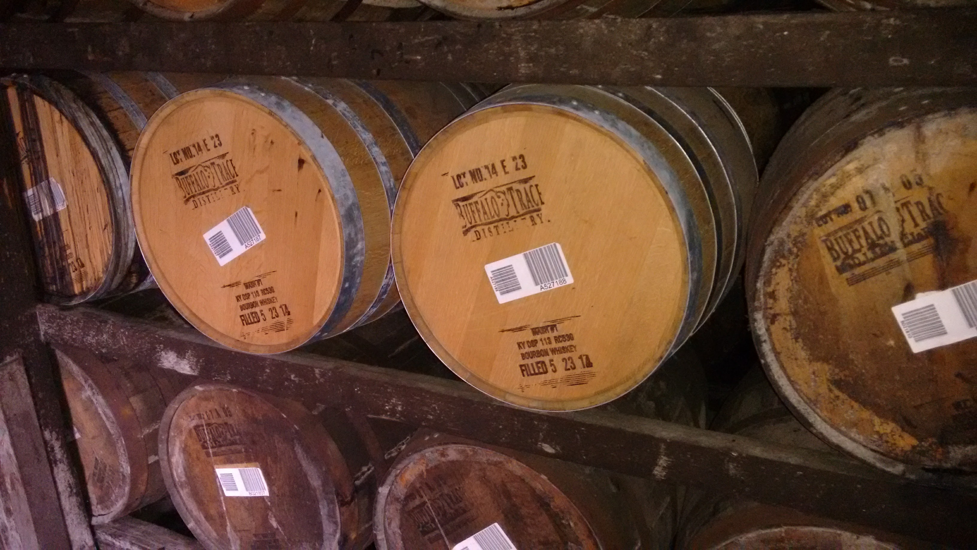 Barrels of bourbon whiskey aging at the Buffalo Trace Distillery in Frankfort, Kentucky